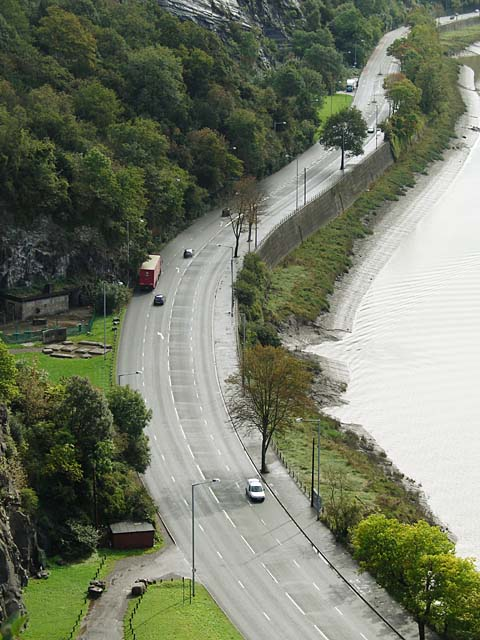 The Portway The Portway runs along beside the River Avon up through Avon Gorge. The building on the left of the photograph is a pumping station at Walcombe Slade. This picture is taken from the viewing point.